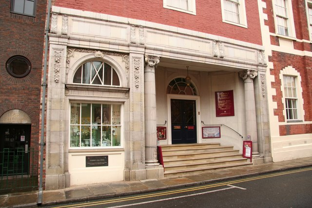 Fairfax House, cinema entrance This entrance was added to Fairfax House in 1920 when it became a cinema